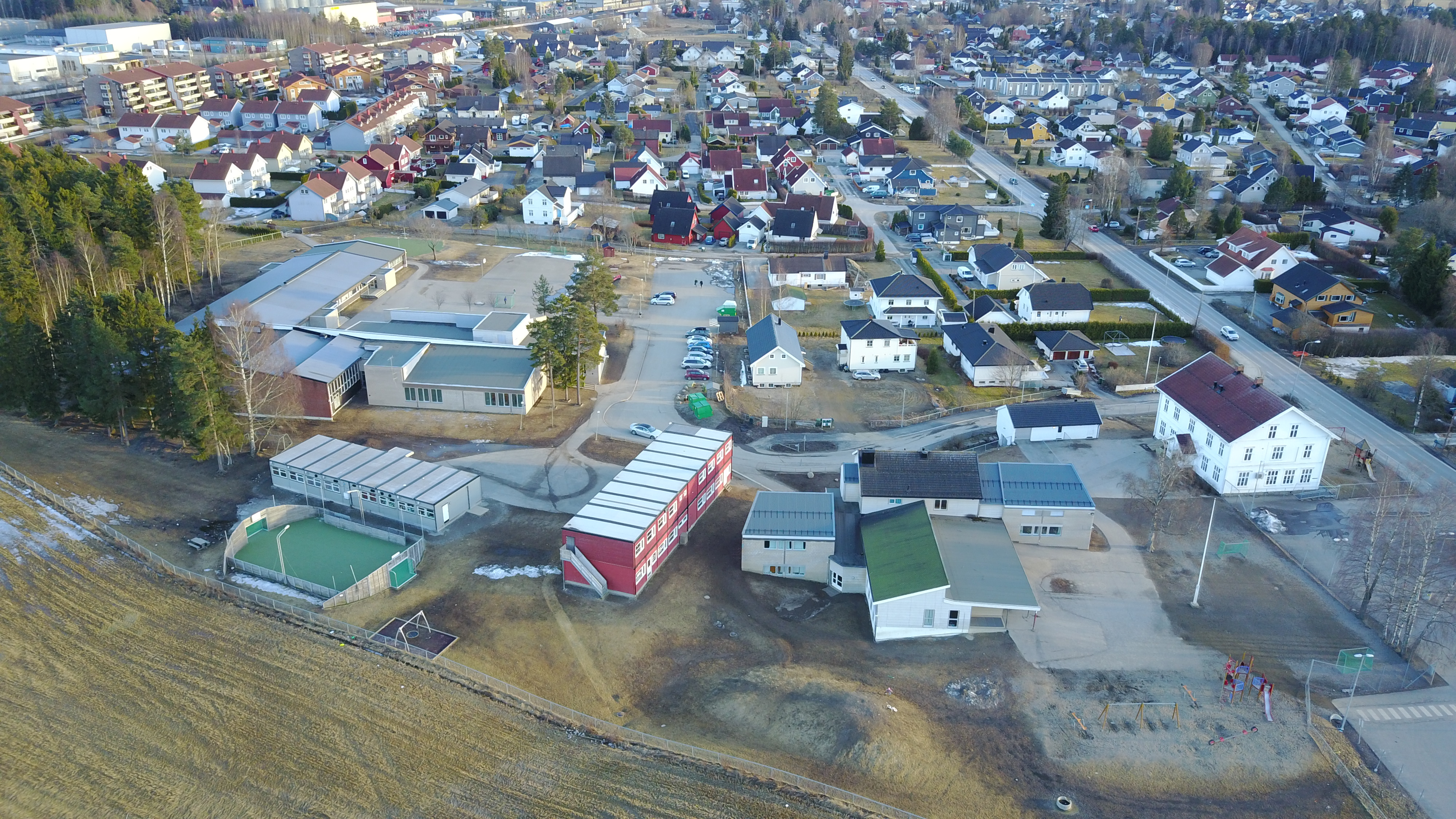 Åreppen school from the air